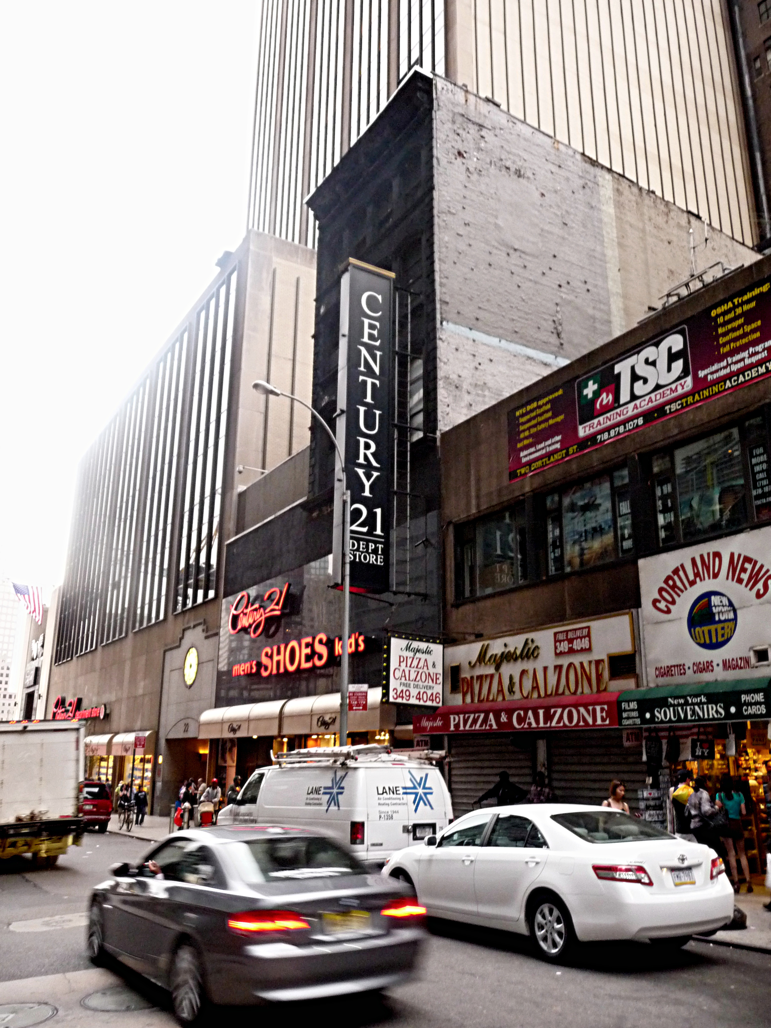 Century 21 Department in New York City, New York.